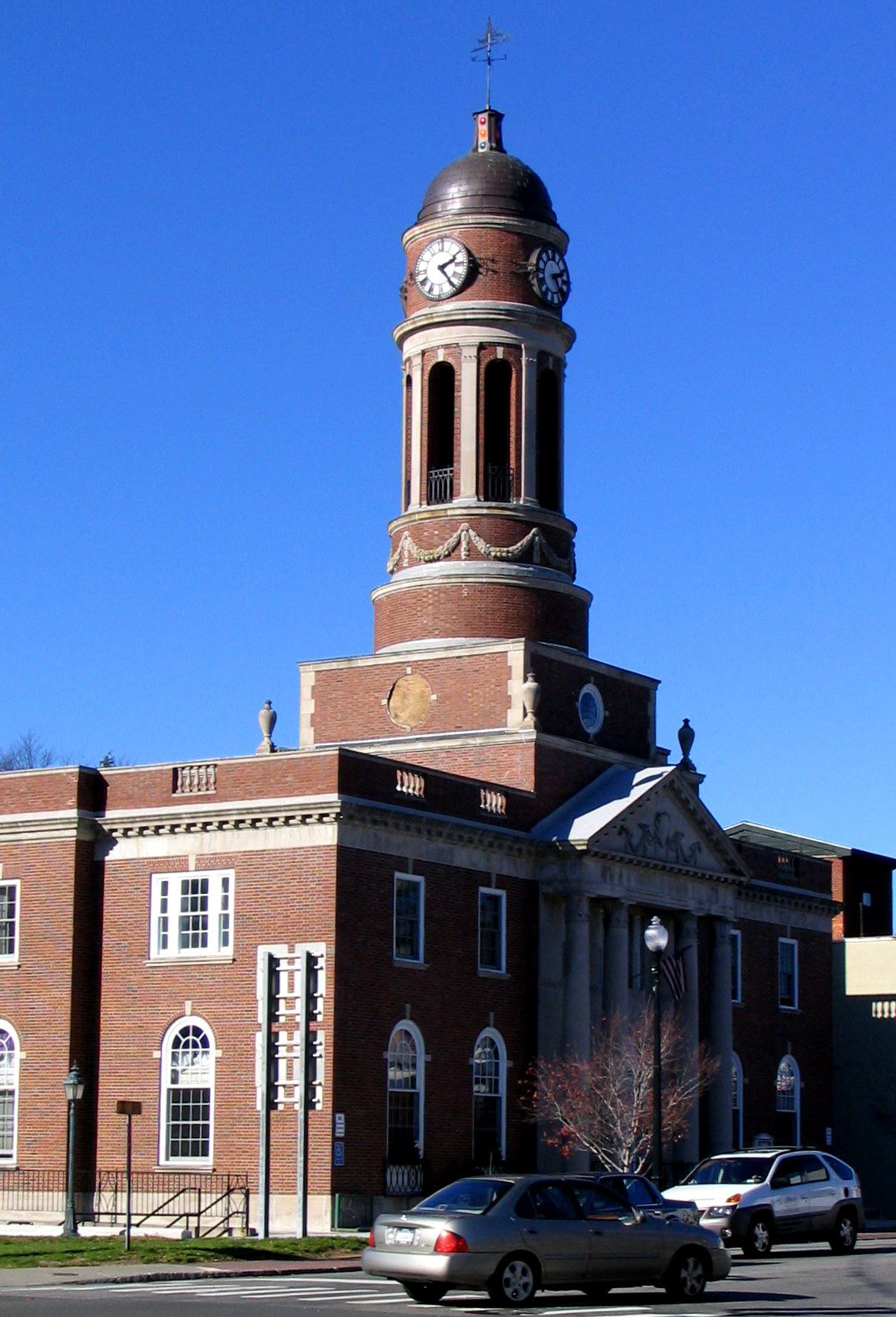 Saranac Lake - Harrietstown Hall. Taken by User:Mwanner, 2 November, 2007